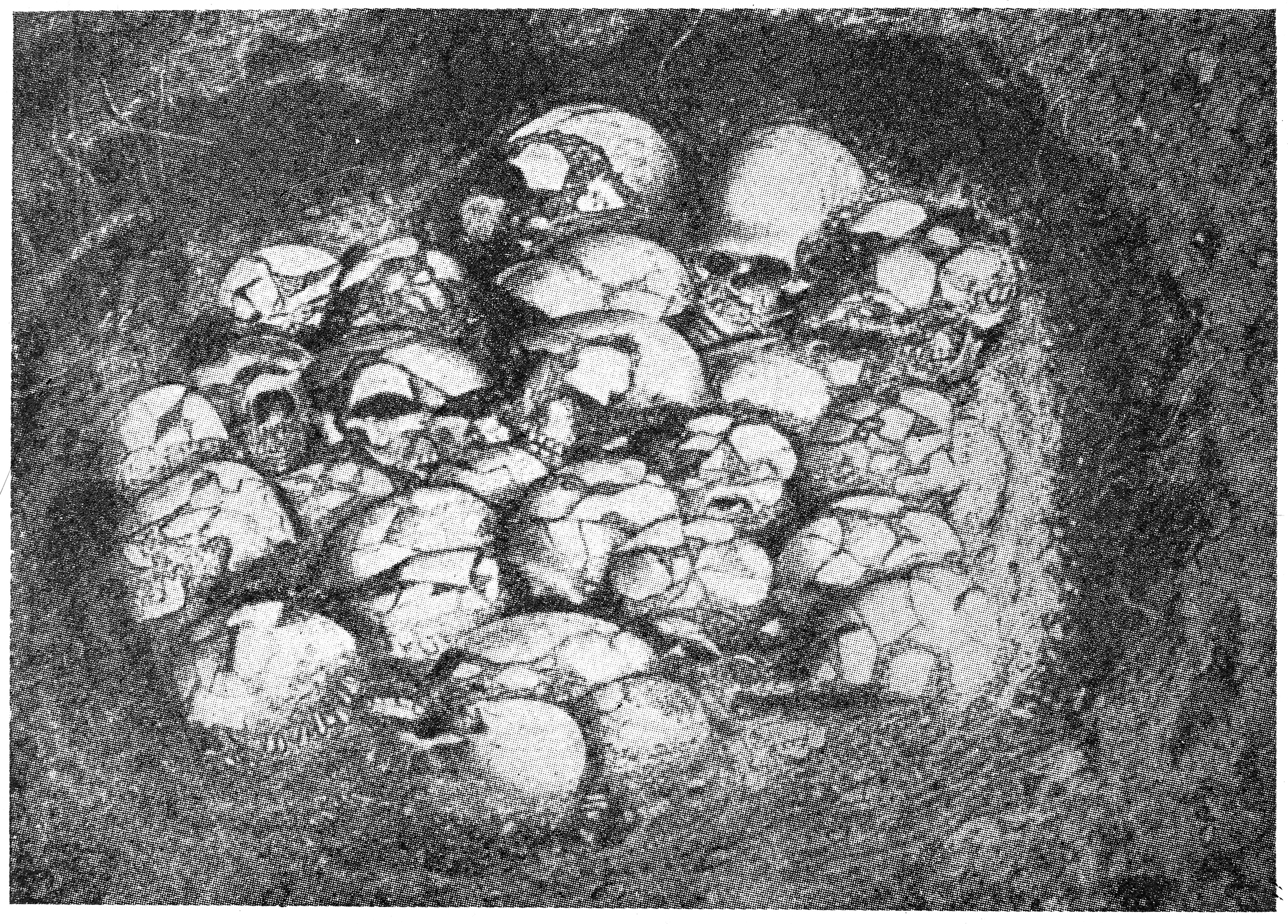 Part of great skull burial at Ofnet, Bavaria. Copied from Hugo Obermaier, Fossil man in Spain, Newhaven, 1924, figure 143, page 338. (After F.R. Schmidt). Mesolithic level. General Collections Keywords: disposal of the dead; pre-historic; Archaeology; funerary techniques